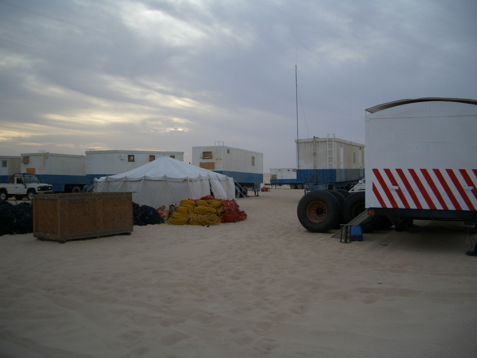 Partial view of a land seismic exploration camp in the Libyan part of the Sahara desert.